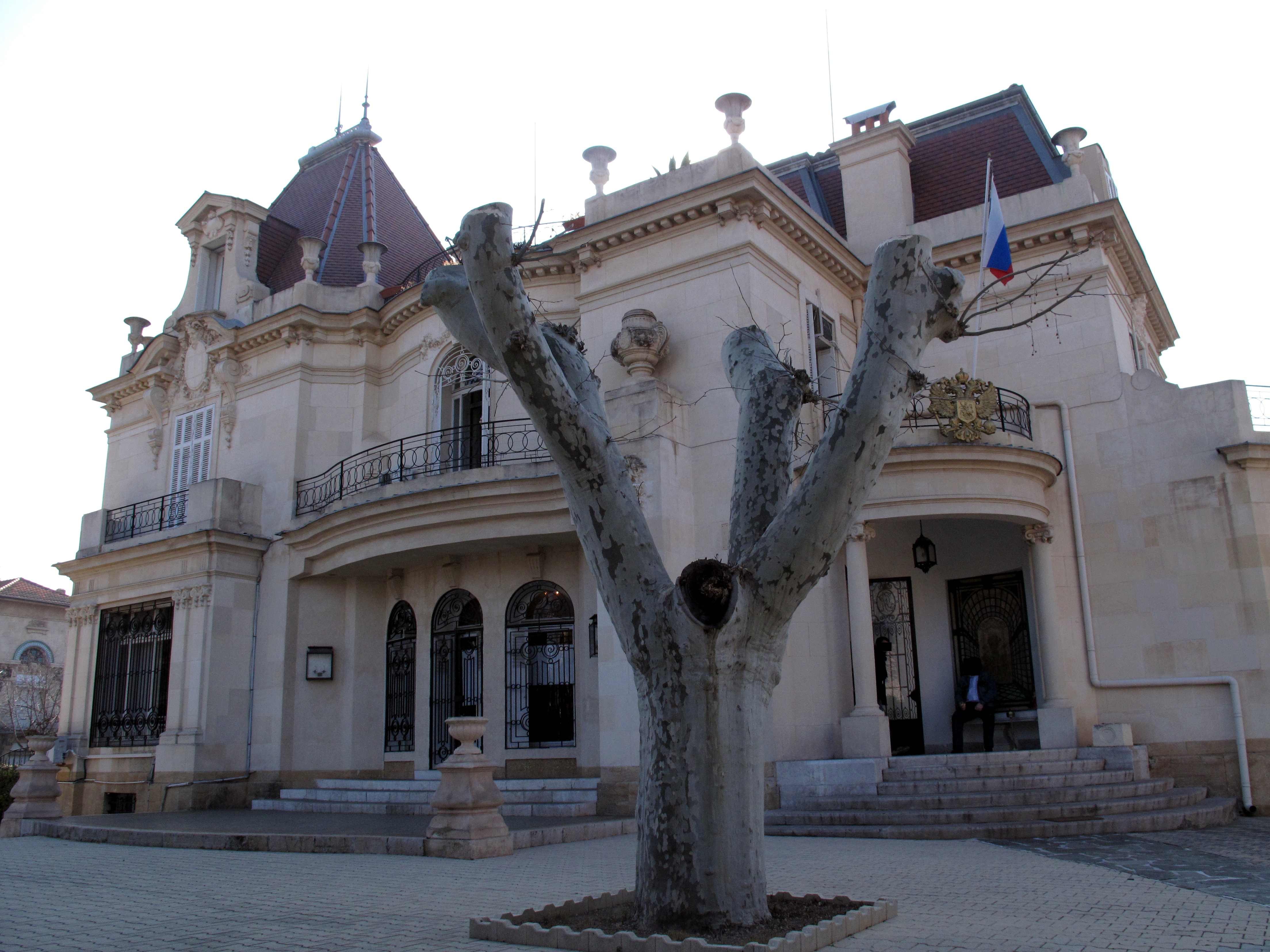 Russian consulate of Marseille